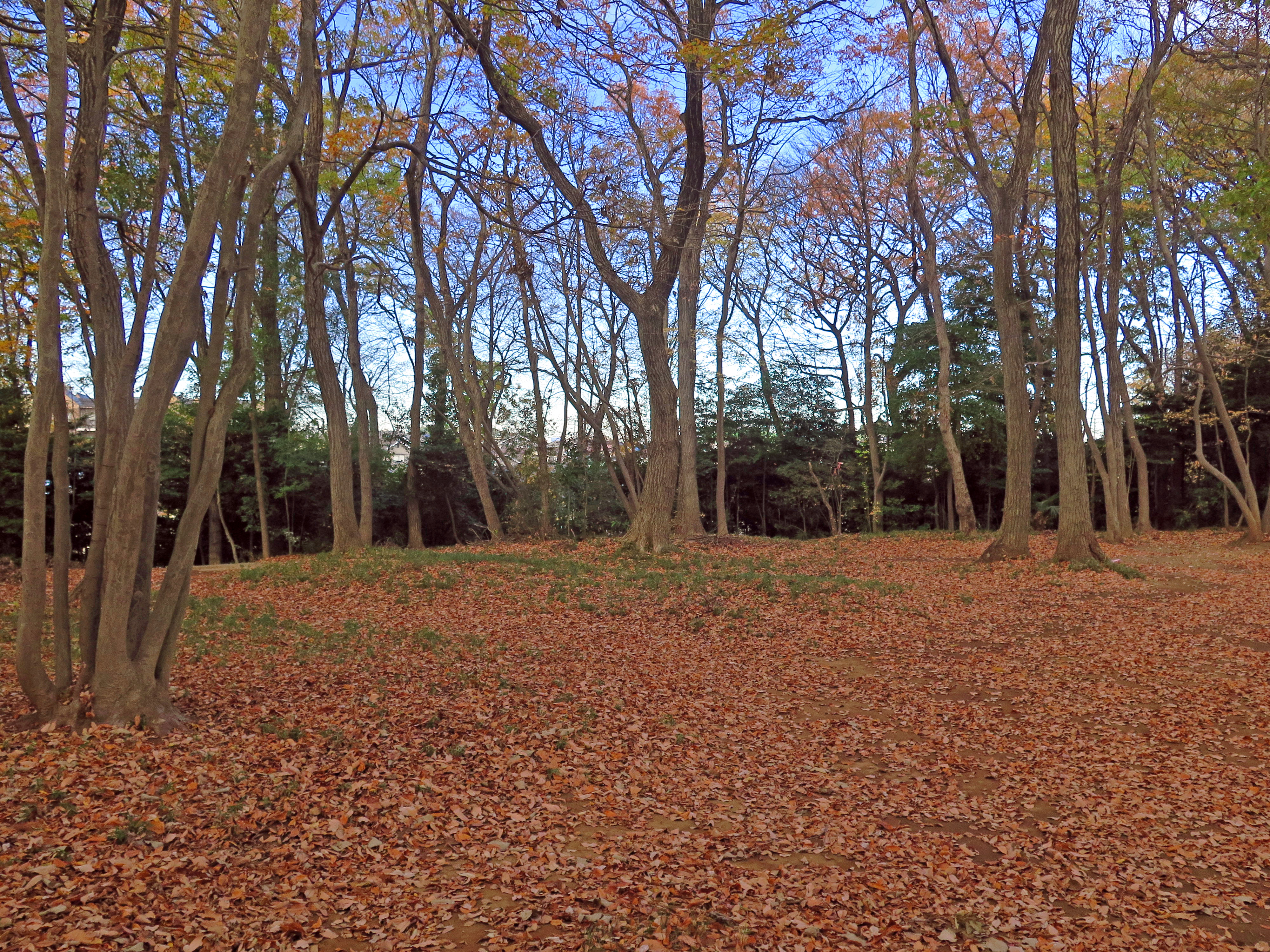 Kamakura Koen Park Minuma District, Saitama-city, Saitama, Japan.